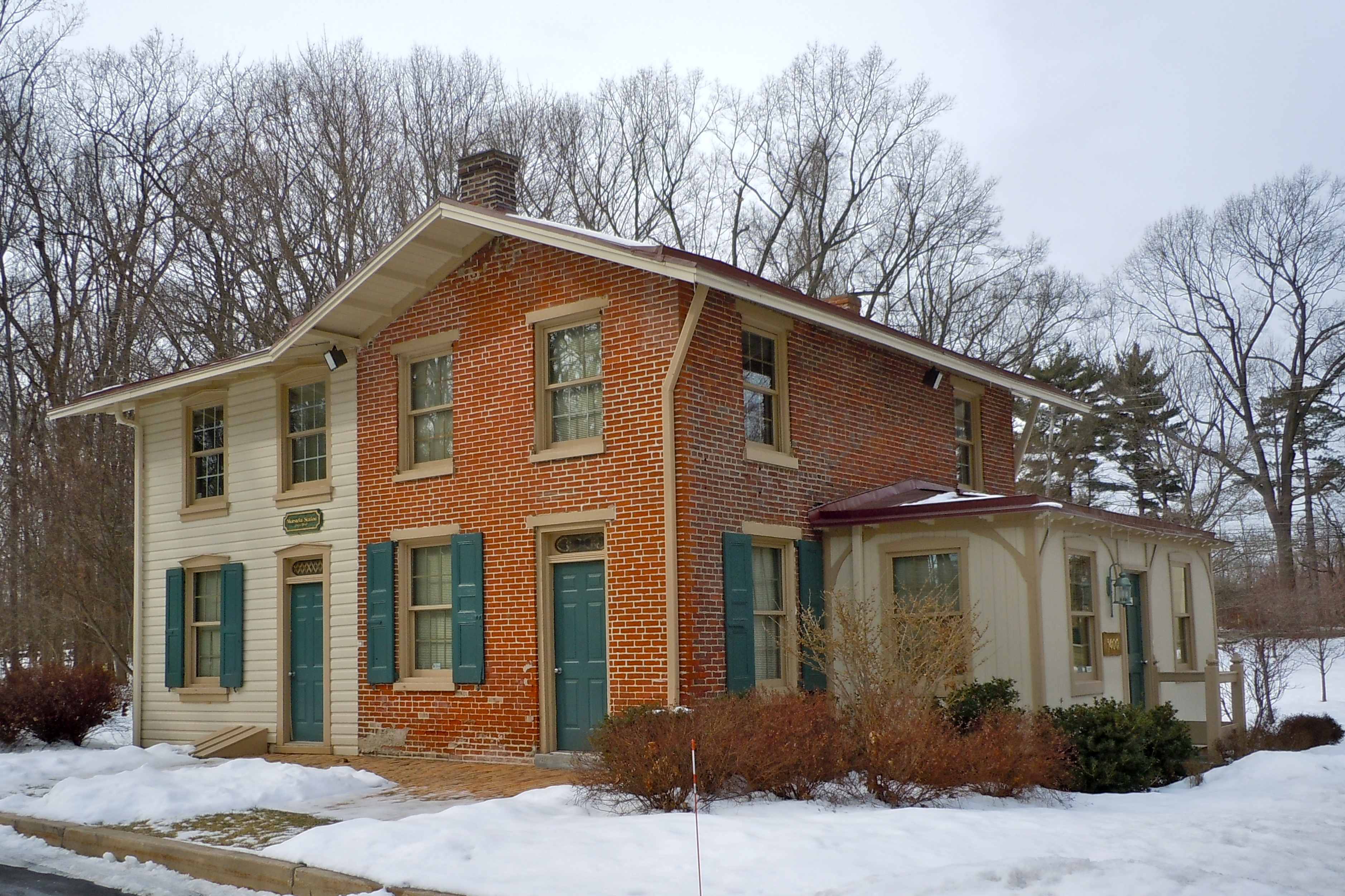 Woodland Station , on the NRHP since September 6, 1984, at 408 King Road, in West Whiteland Township, Chester County, Pennsylvania sorta near Malvern, PA. Old railroad station, now on a corporate campus, doesn't look like it is used for anything but is well kept up. Tracks long since torn out, but roadbed is visible across the street.